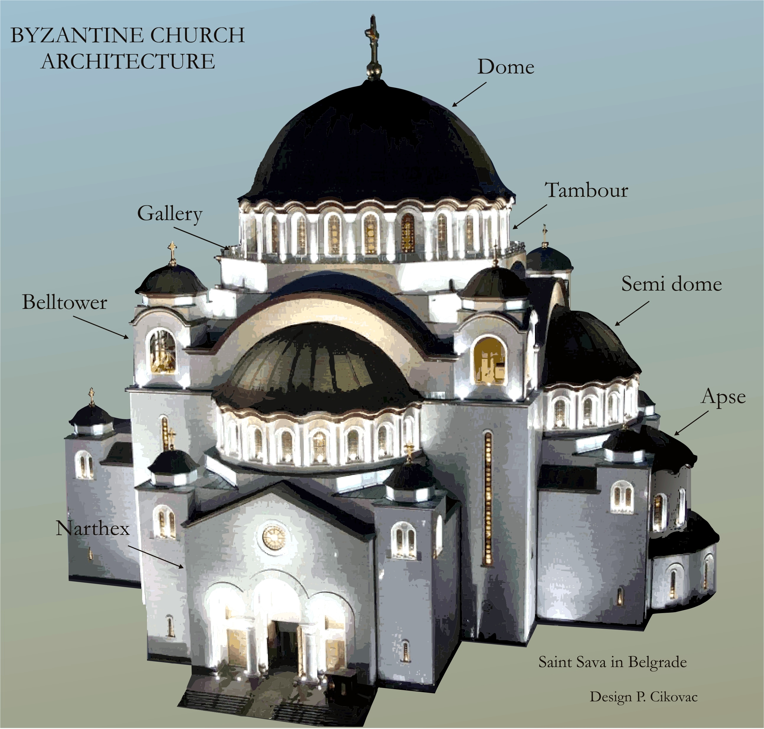 Isometric view Church of Saint Sava by P.Cikovac